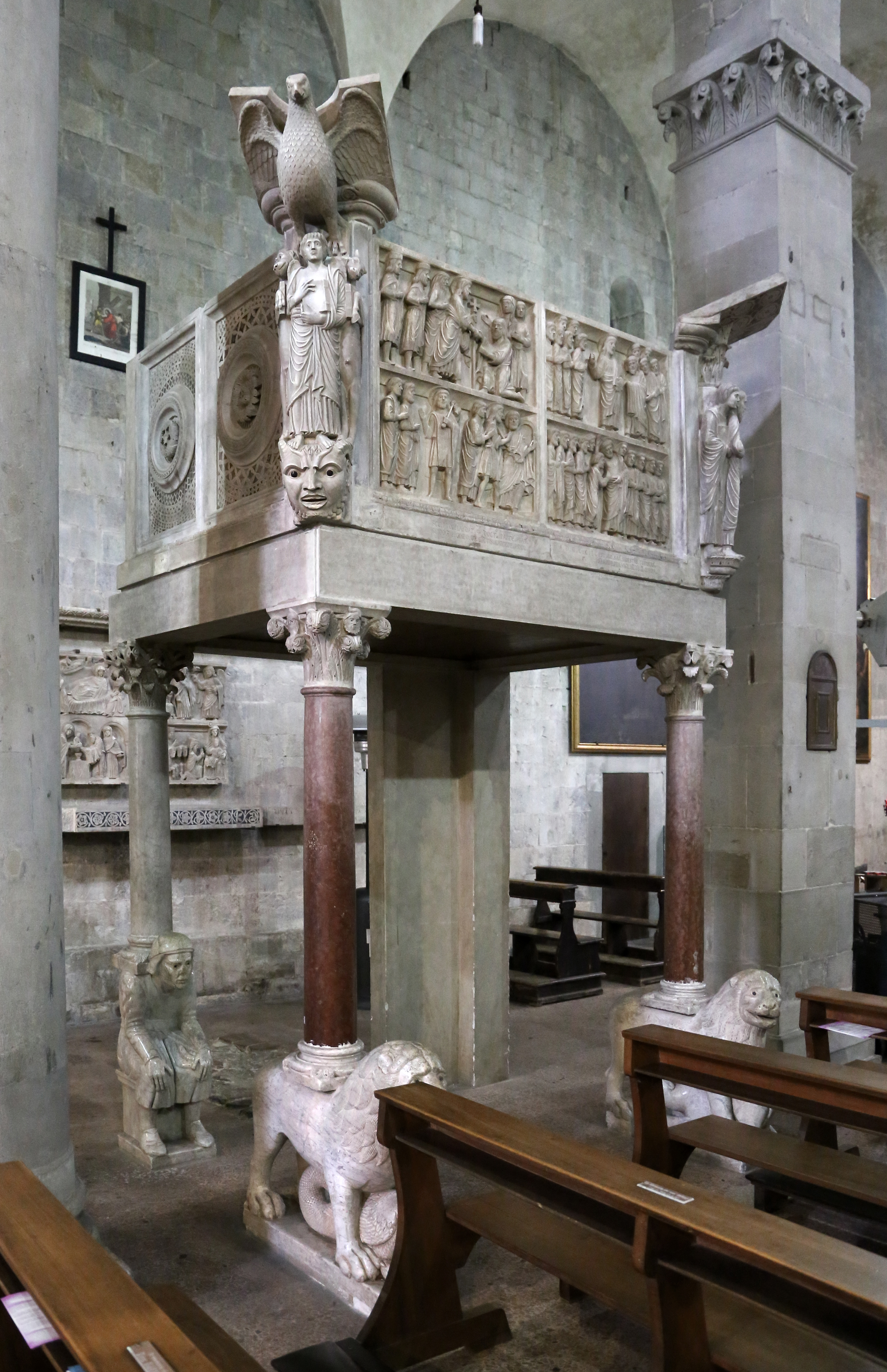 San Bartolomeo in Pantano (Pistoia) - Guido da Como pulpit